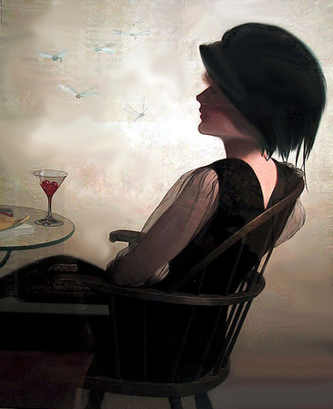 Libélulas